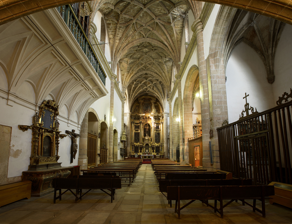 Church of San Miguel (Segovia, Spain).